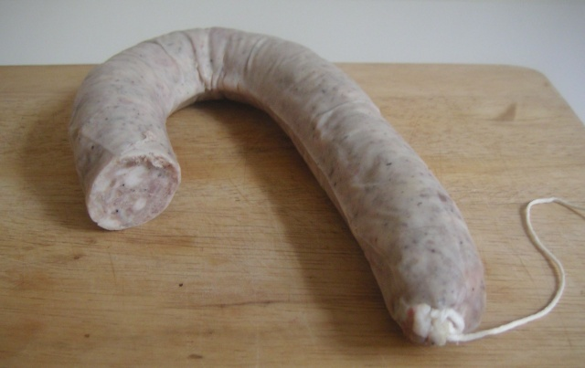 White "butifarra", or "blanquet", a type of Catalan sausage